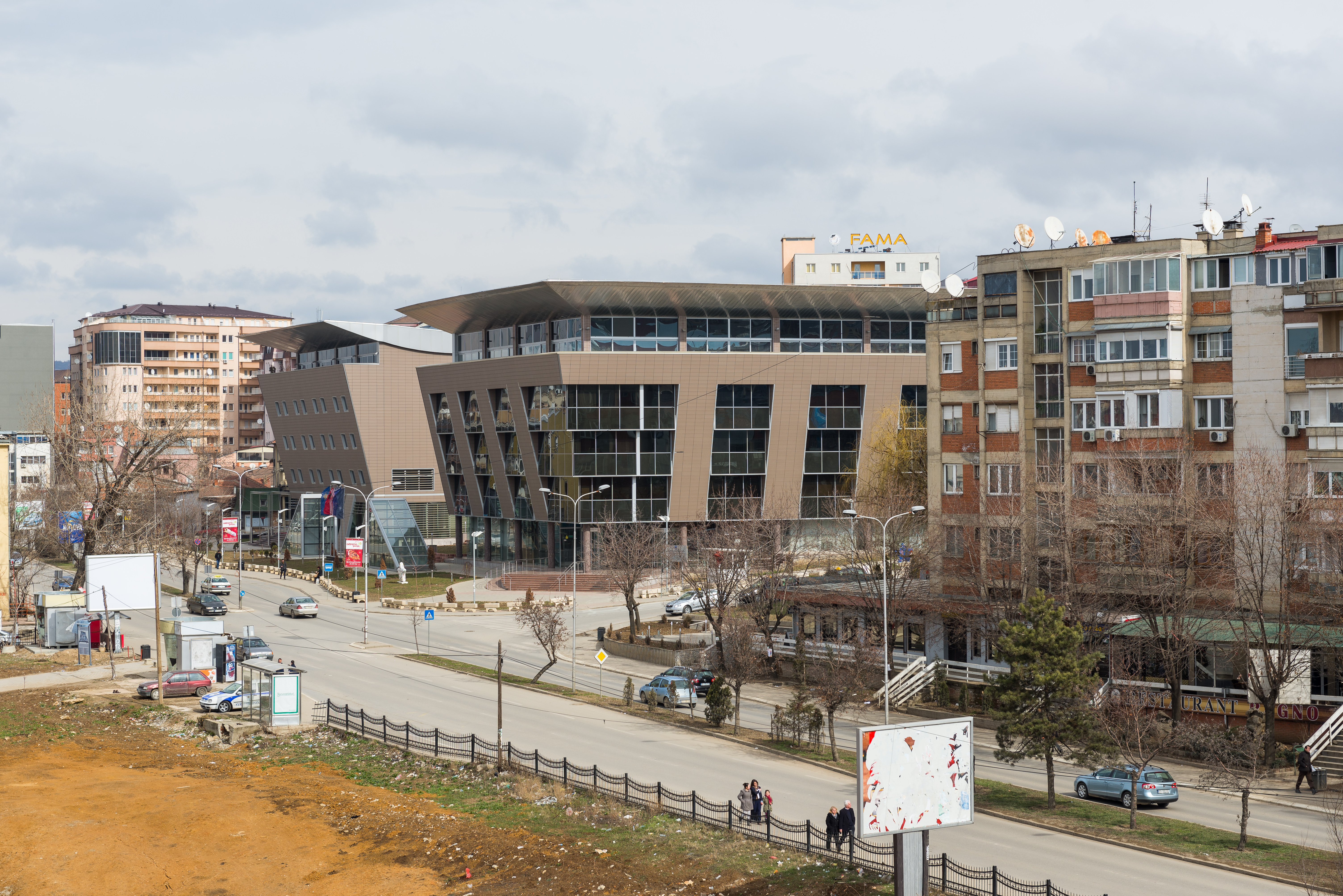 Buildings in central Pristina.